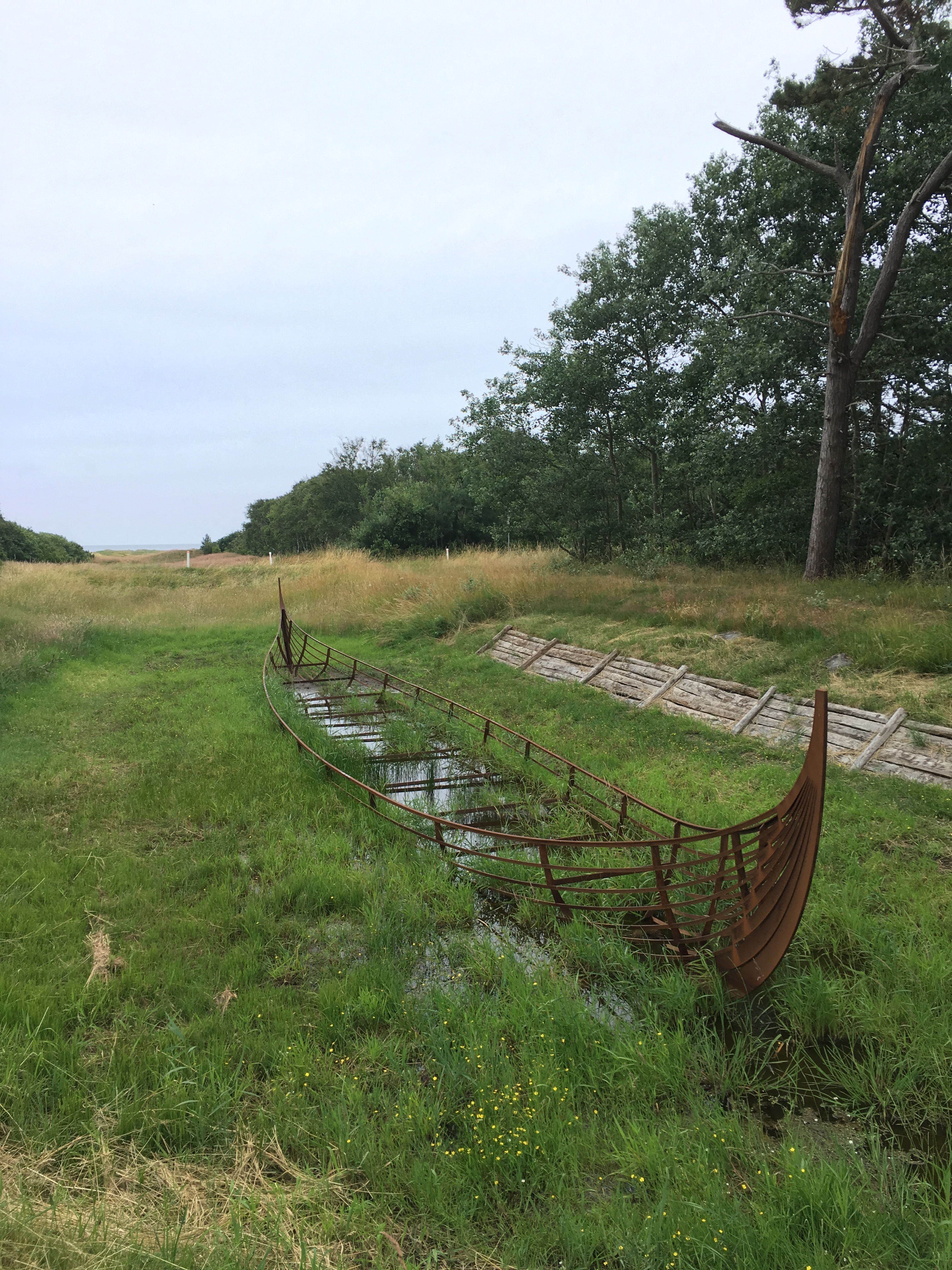 Kanhave Canal on Samsø taken by Elizabeth Hubbard in 2016